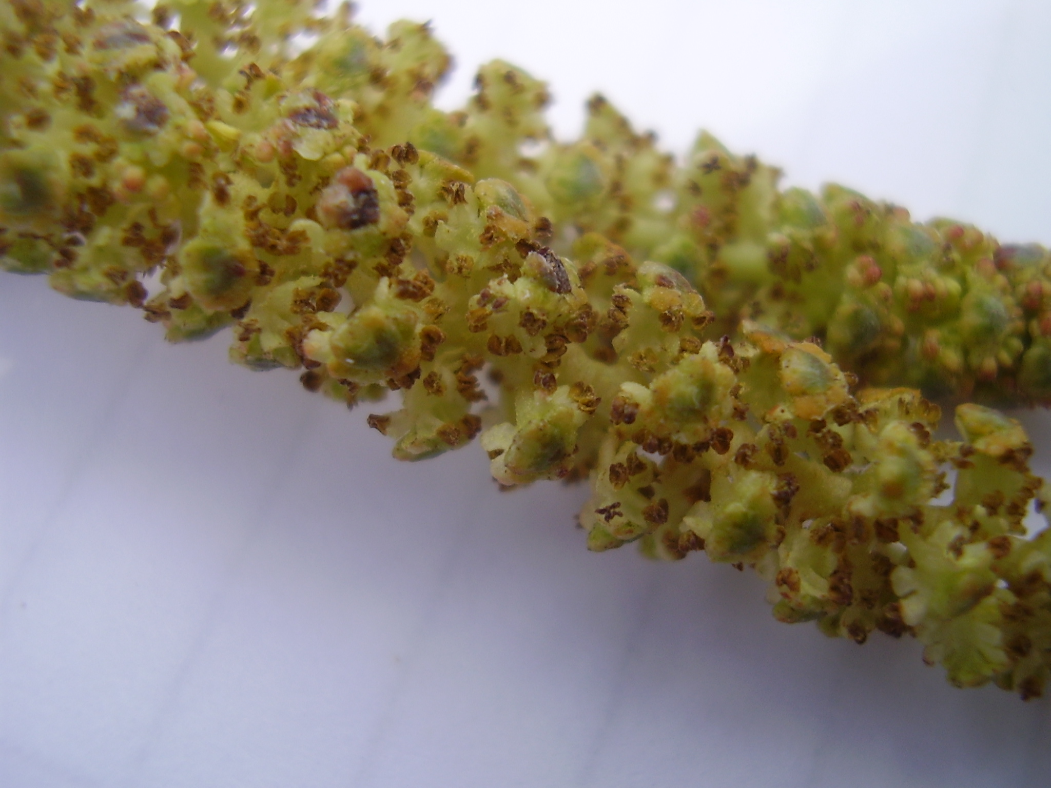 Alnus glutinosa own work Rob Hille